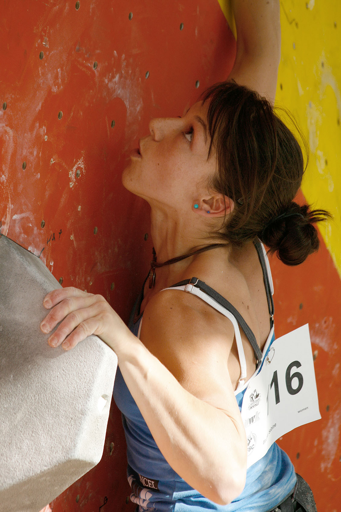 Sabine Bacher during qualifications at the IFSC Boulder Worldcup Vienna 2010.